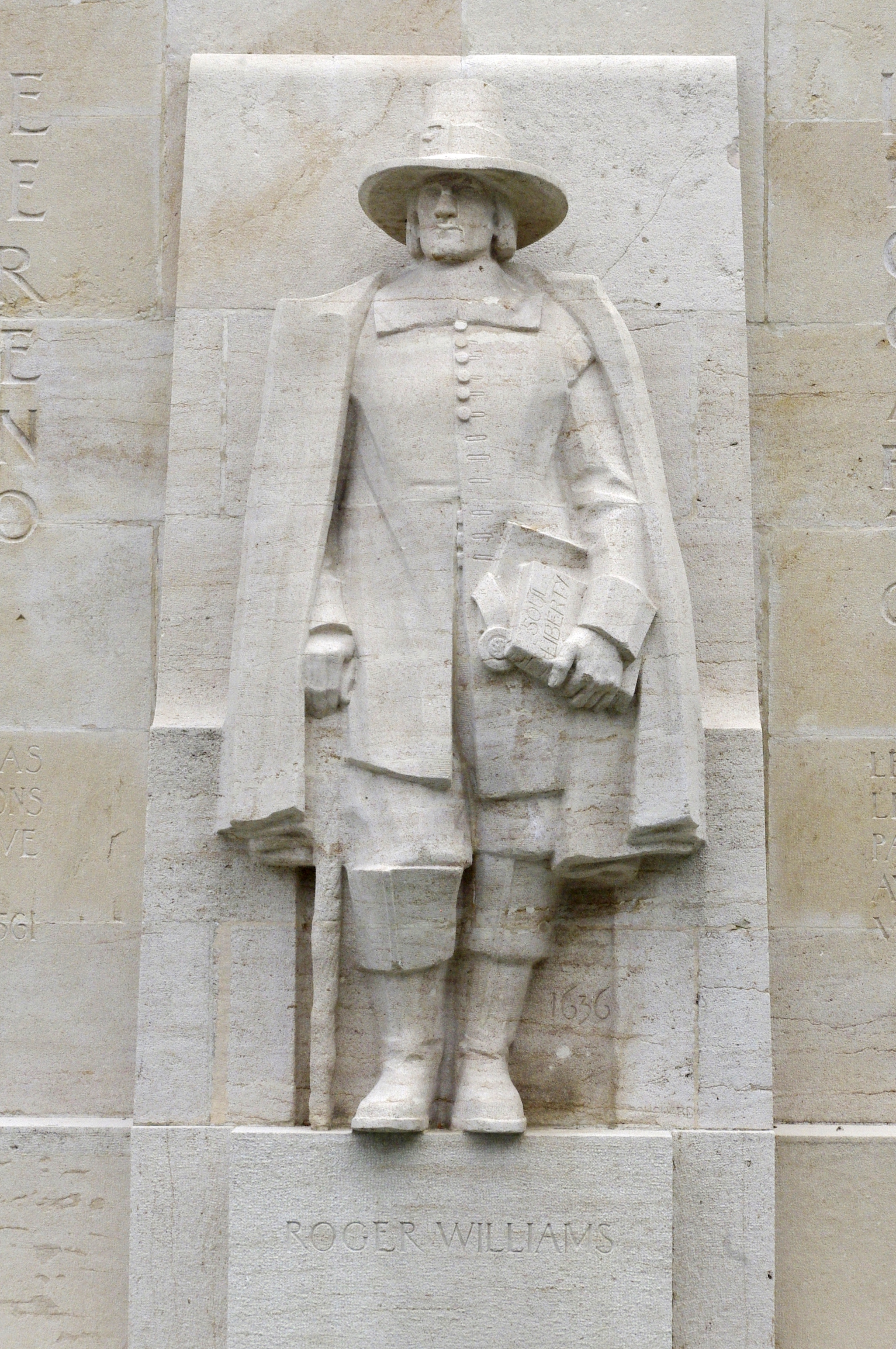 Geneva - Promenade de la Treille, Statue of Roger Williams.